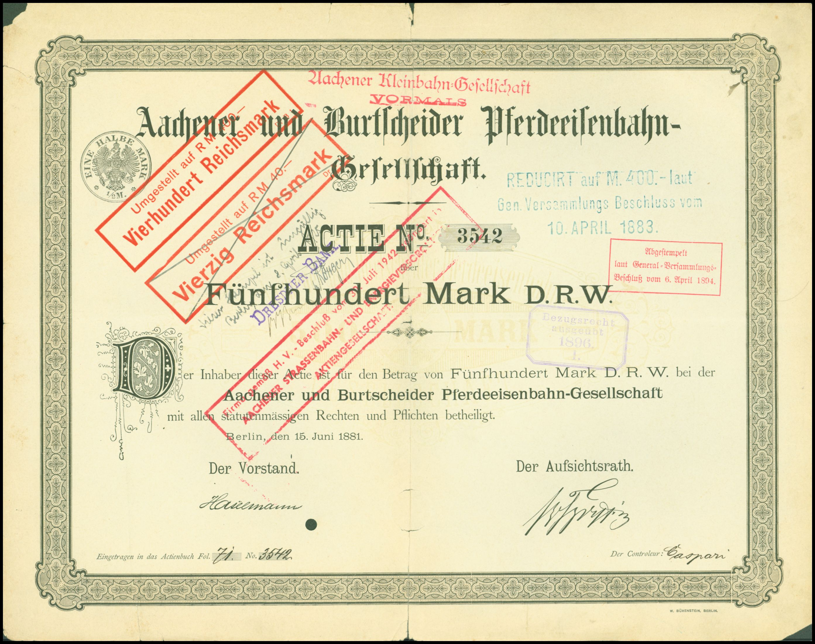 Share of the Aachener und Burtscheider Pferdeeisenbahn-Gesellschaft, issued 15. June 1881